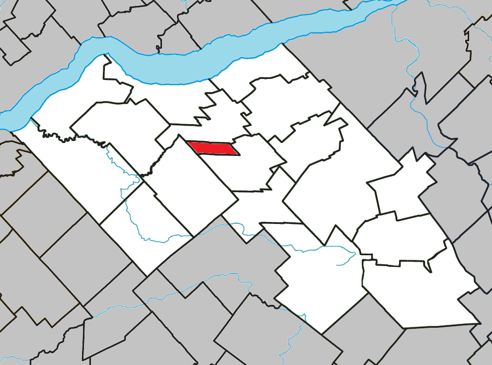 Location of Laurier-Station, Quebec within Lotbinière Regional County Municipality.